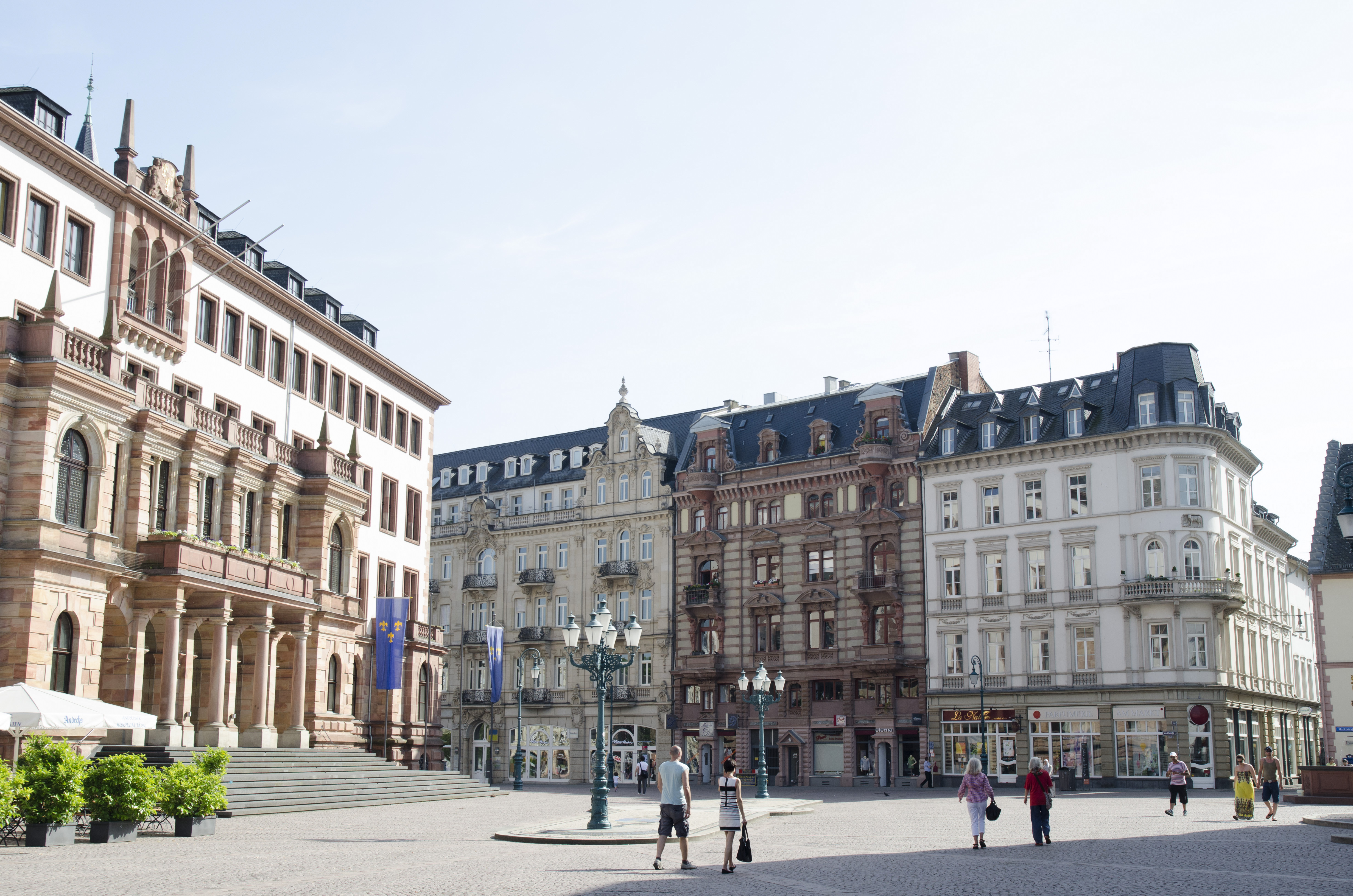 Schloßplatz Wiesbaden